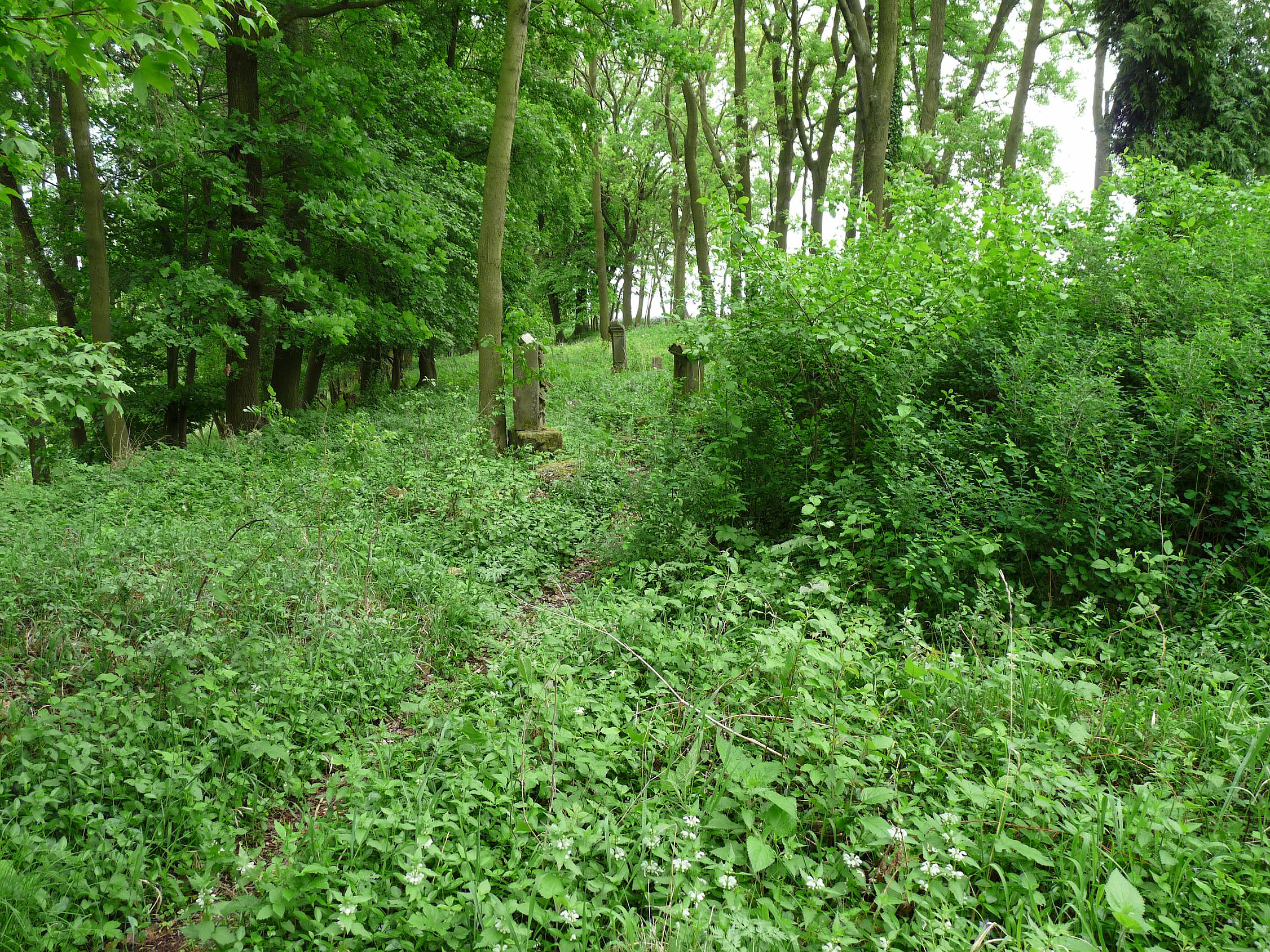 Jewish cemetery in the village of Bosyně, part of the munucipality of Vysoká, Mělník District, Czech Republic